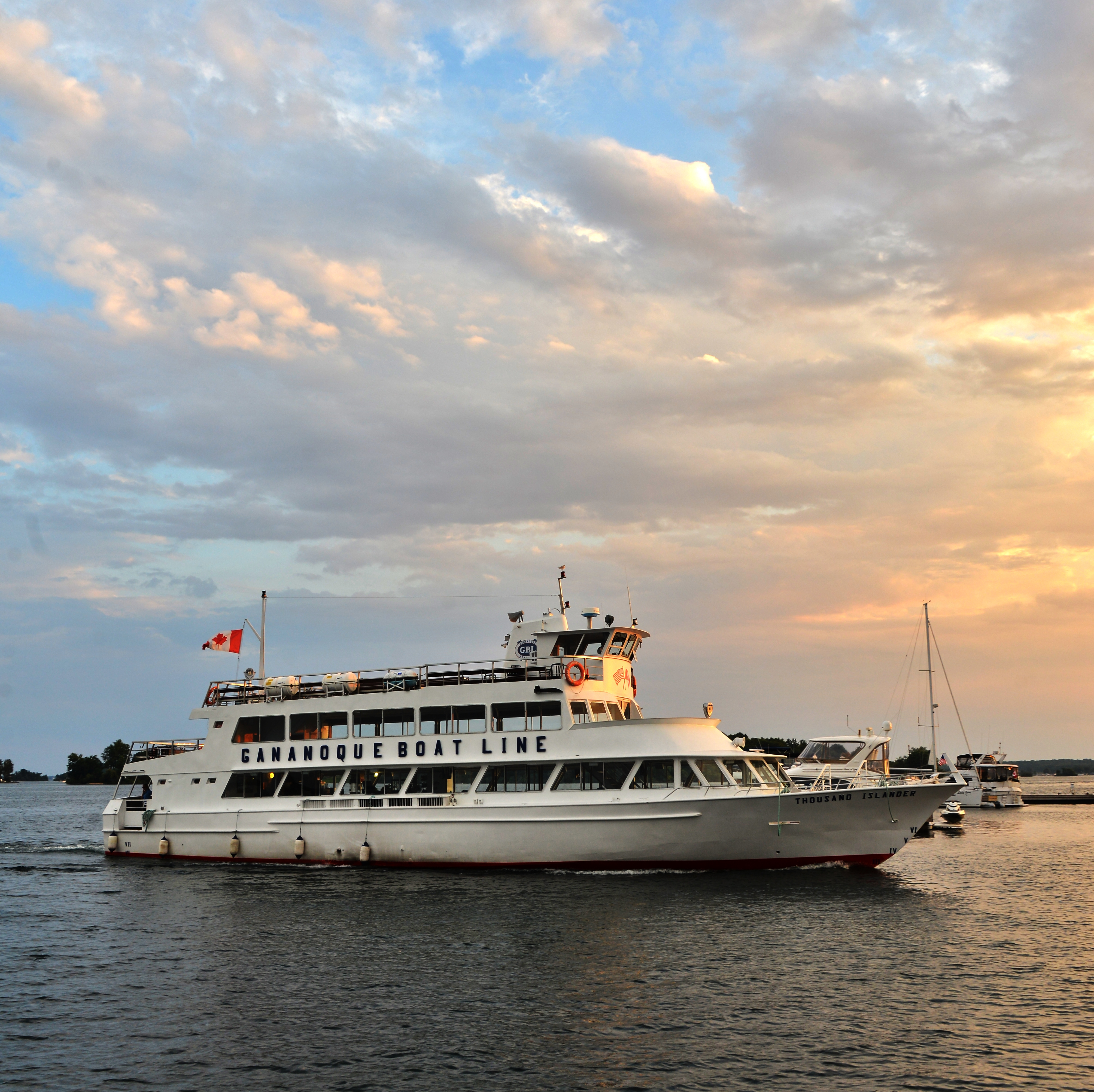 Boat of the Thousand Islands tourist cruse line Thousand Islander heading towards Gananoque Marina